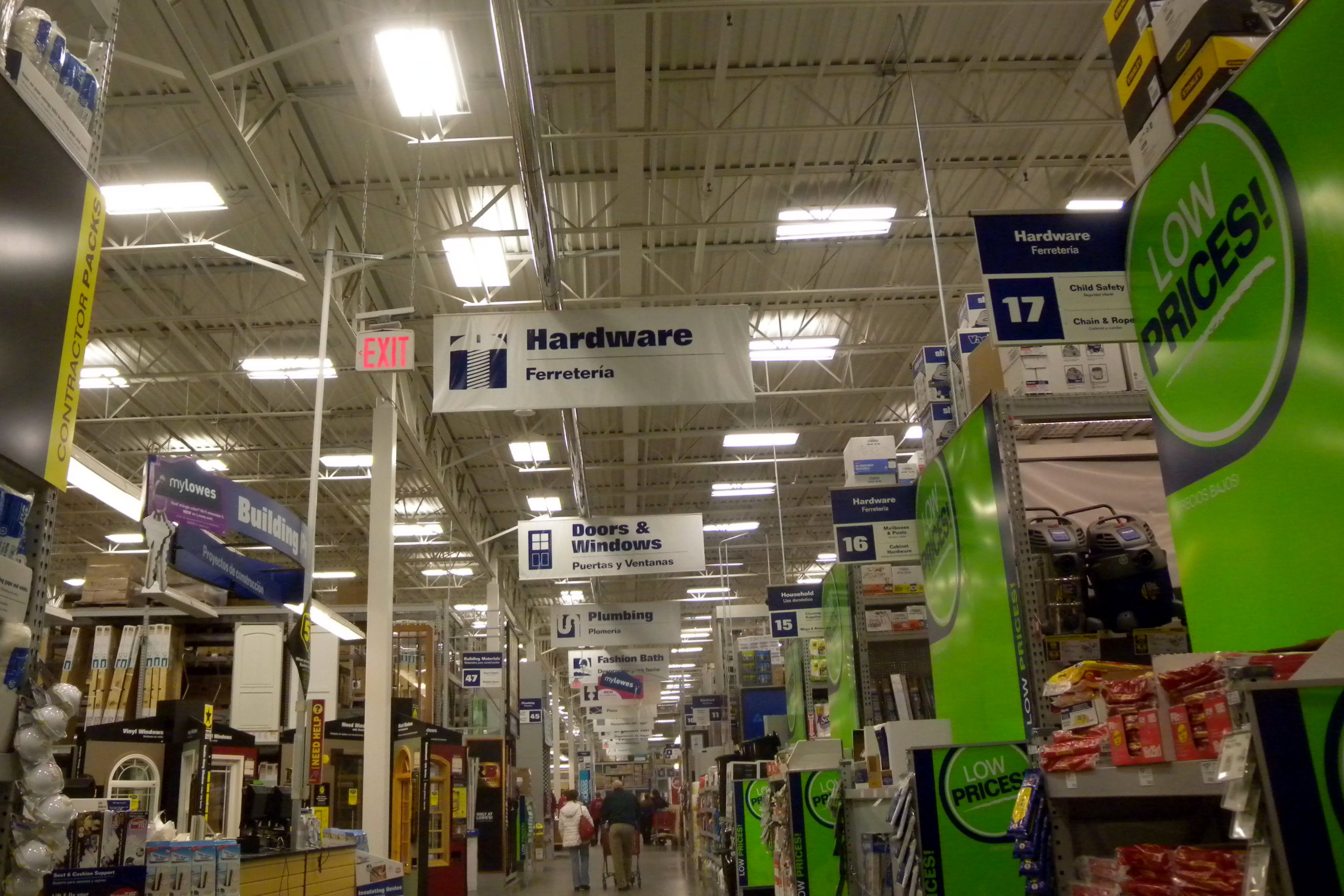 Looking northeast inside Lowe's in Gowanus.